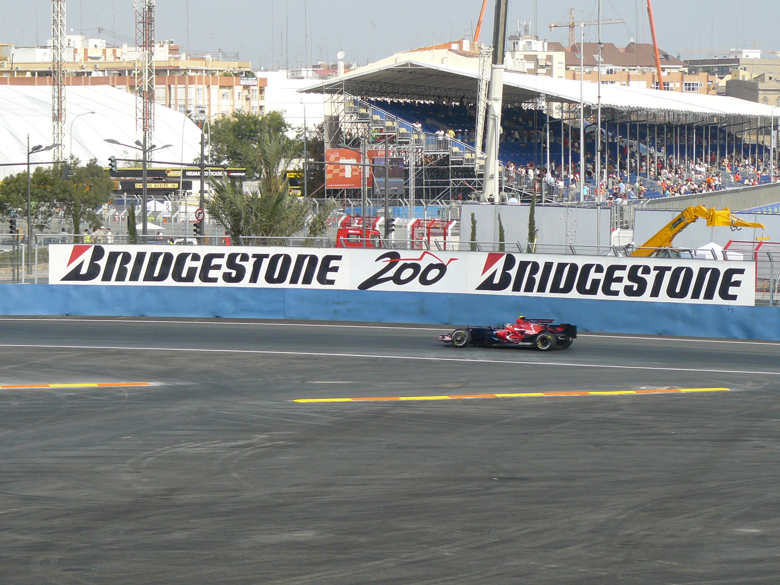 Sebastian Vettel, Toro Rosso - Formula 1 Grand Prix of Europe, Valencia Street Circuit, Spain, August 2008